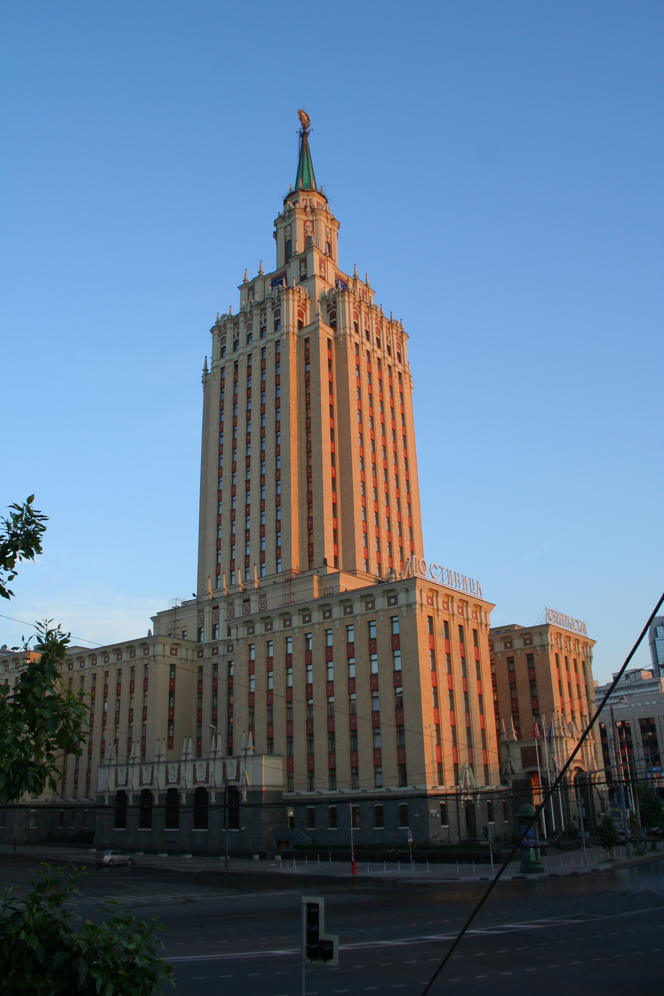 The Hotel Leningradskaya in Moscow. View after its renewal as of 2010.